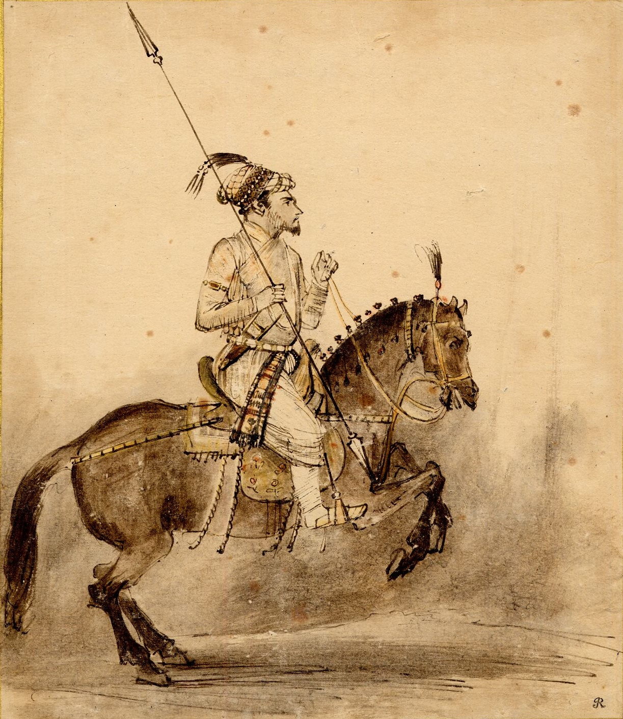 A Mughal nobleman on horseback; after a Mughal miniature, a man, with slight beard, holding a two-headed lance seated on a horse which is rearing to right. c.1656-1661 Pen and brown ink with brown and grey wash, touched with red and yellow chalk and white heightening and with some scraping-out, on oriental paper; the lance drawn with a ruler. Verso: laid down on old mat. No watermark.